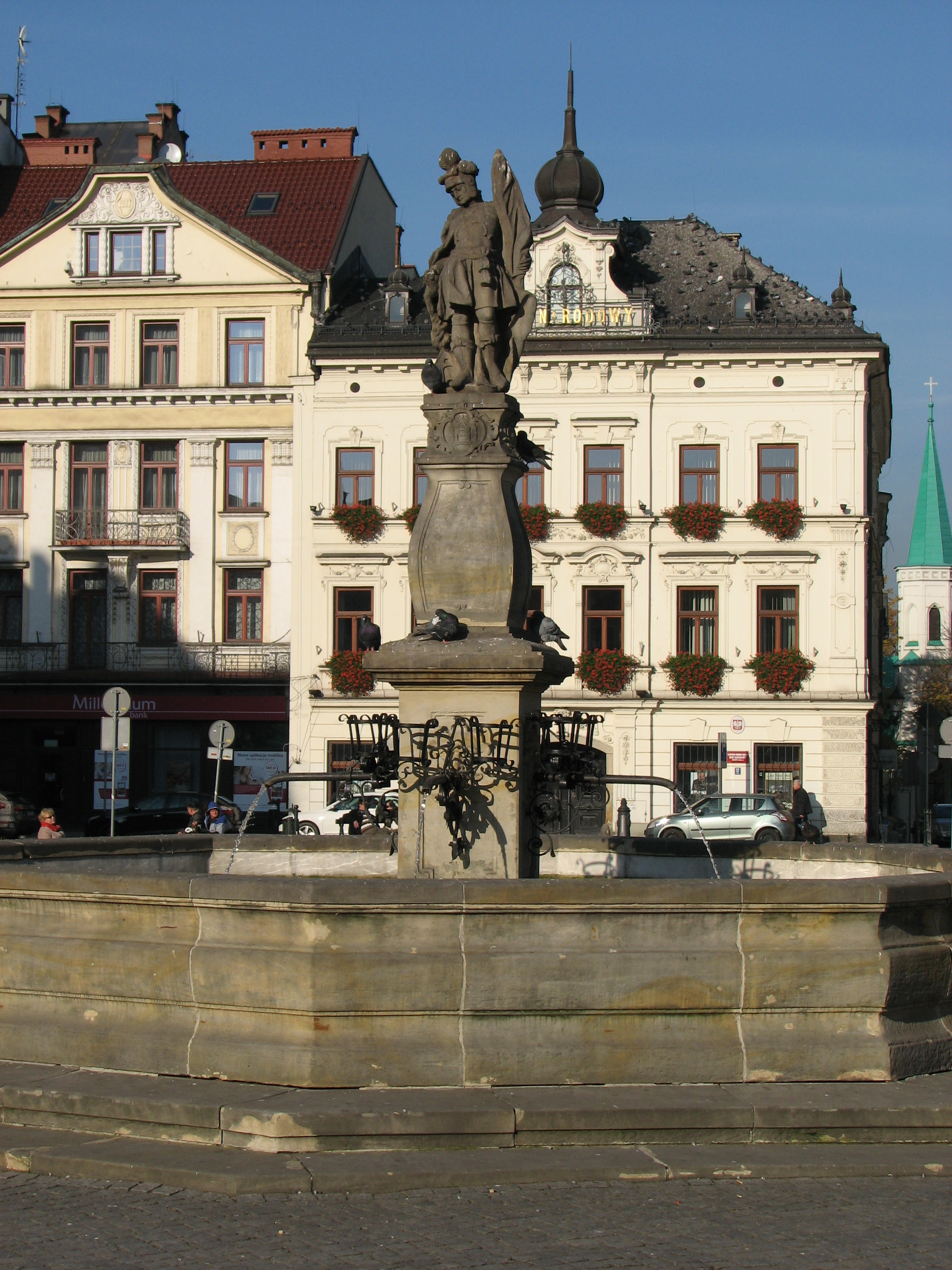 St. Florian Fountain in Cieszyn in autumn 2015